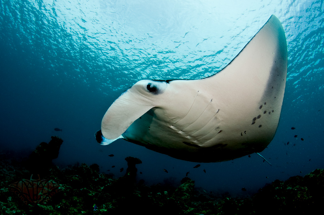 Reef manta ray (Manta alfredi) at Dharavandhoo Thila, Maldives